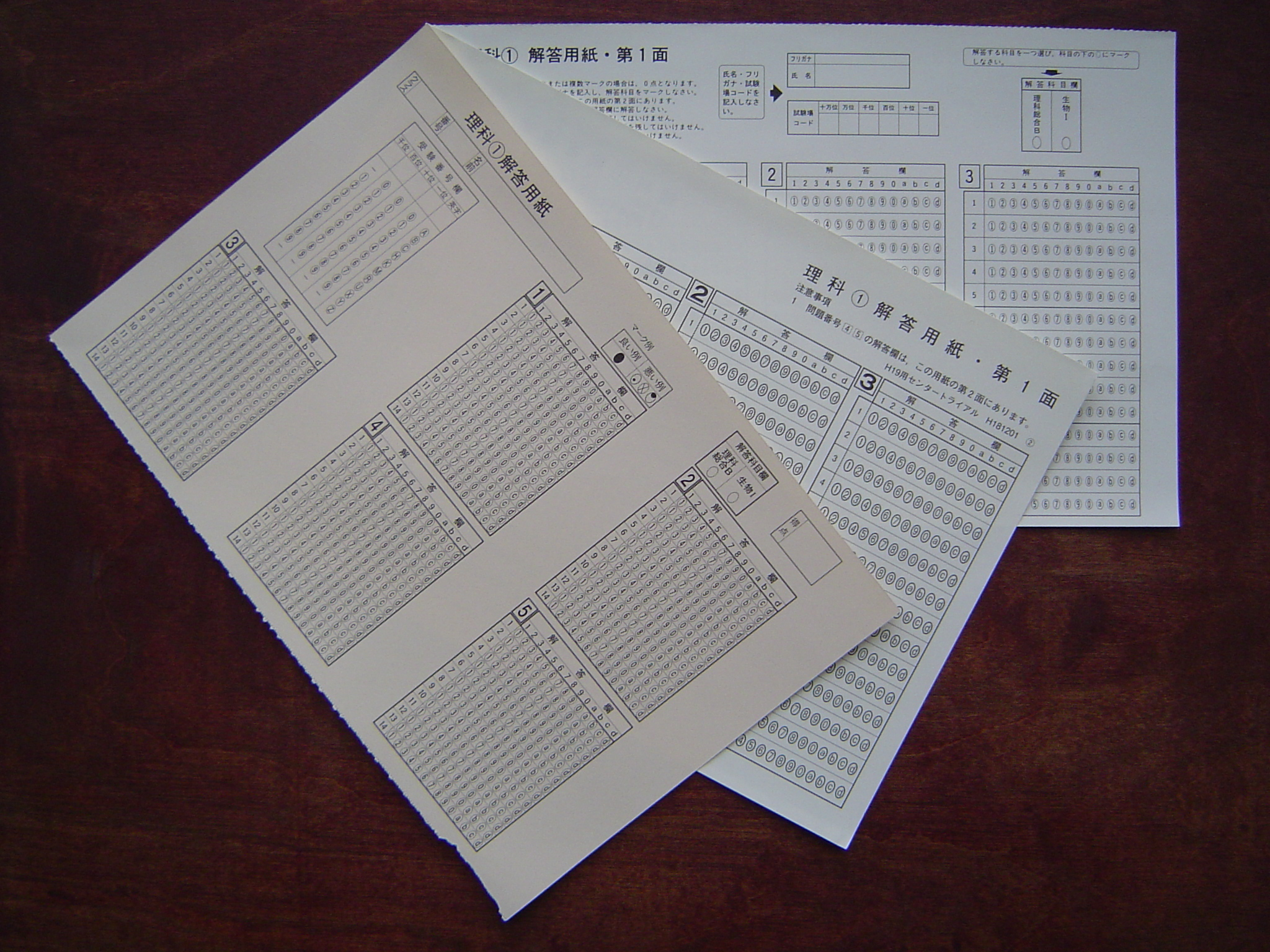 Mark sensings